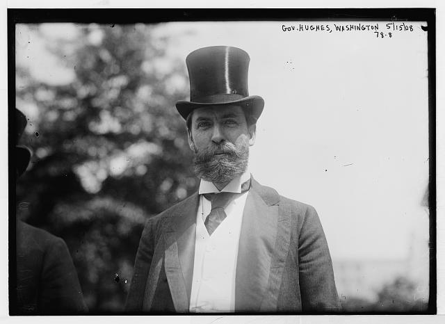 Charles Evans Hughes (1862 - 1948), lawyer and Republican politician